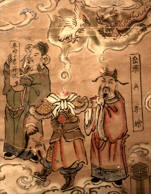 Section from a 19th century Chinese Hell Scroll showing the ghost of Yue Fei accusing the traitor Qin Huai.